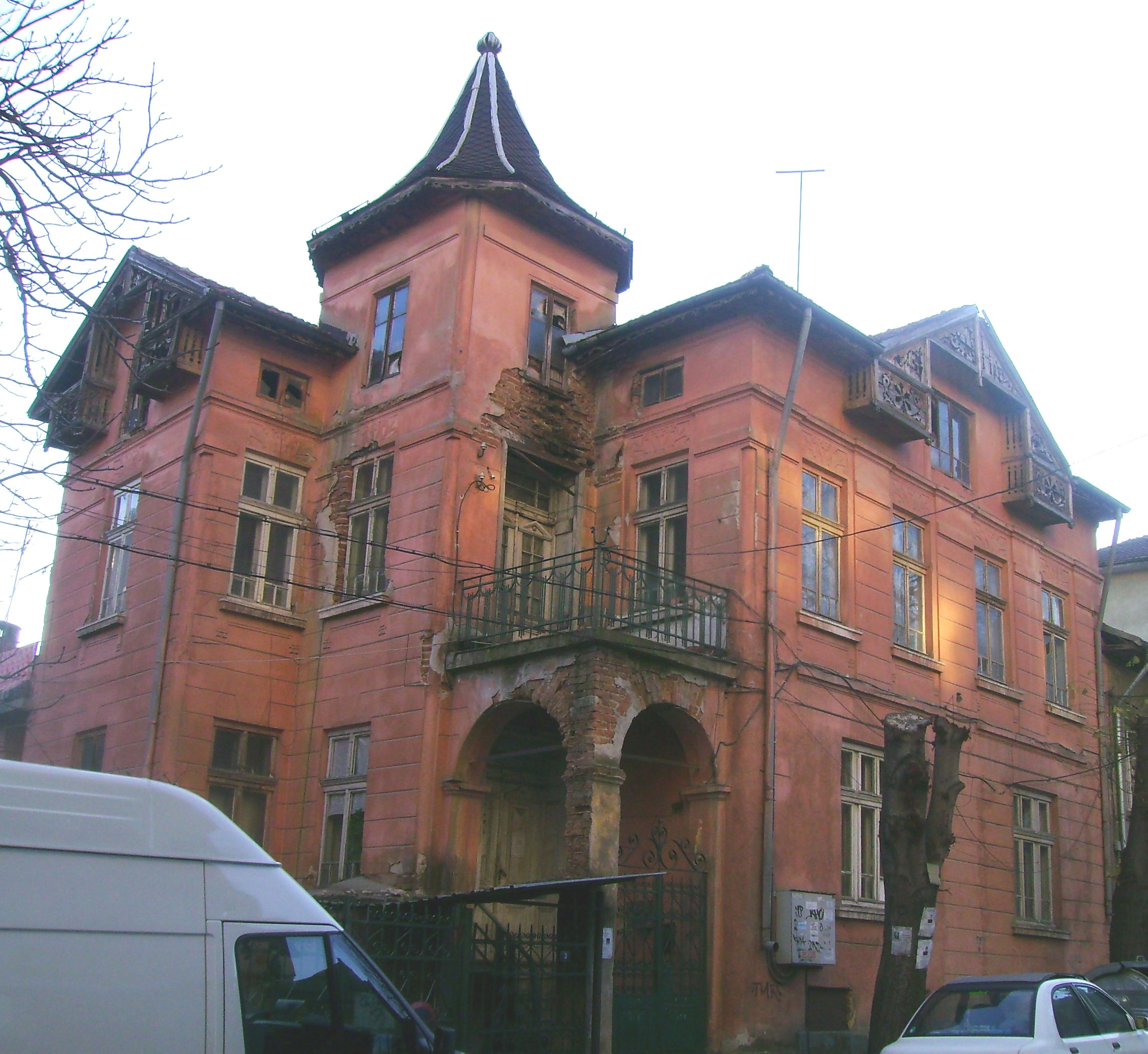 This house in Pleven (Bulgaria) looks haunted.